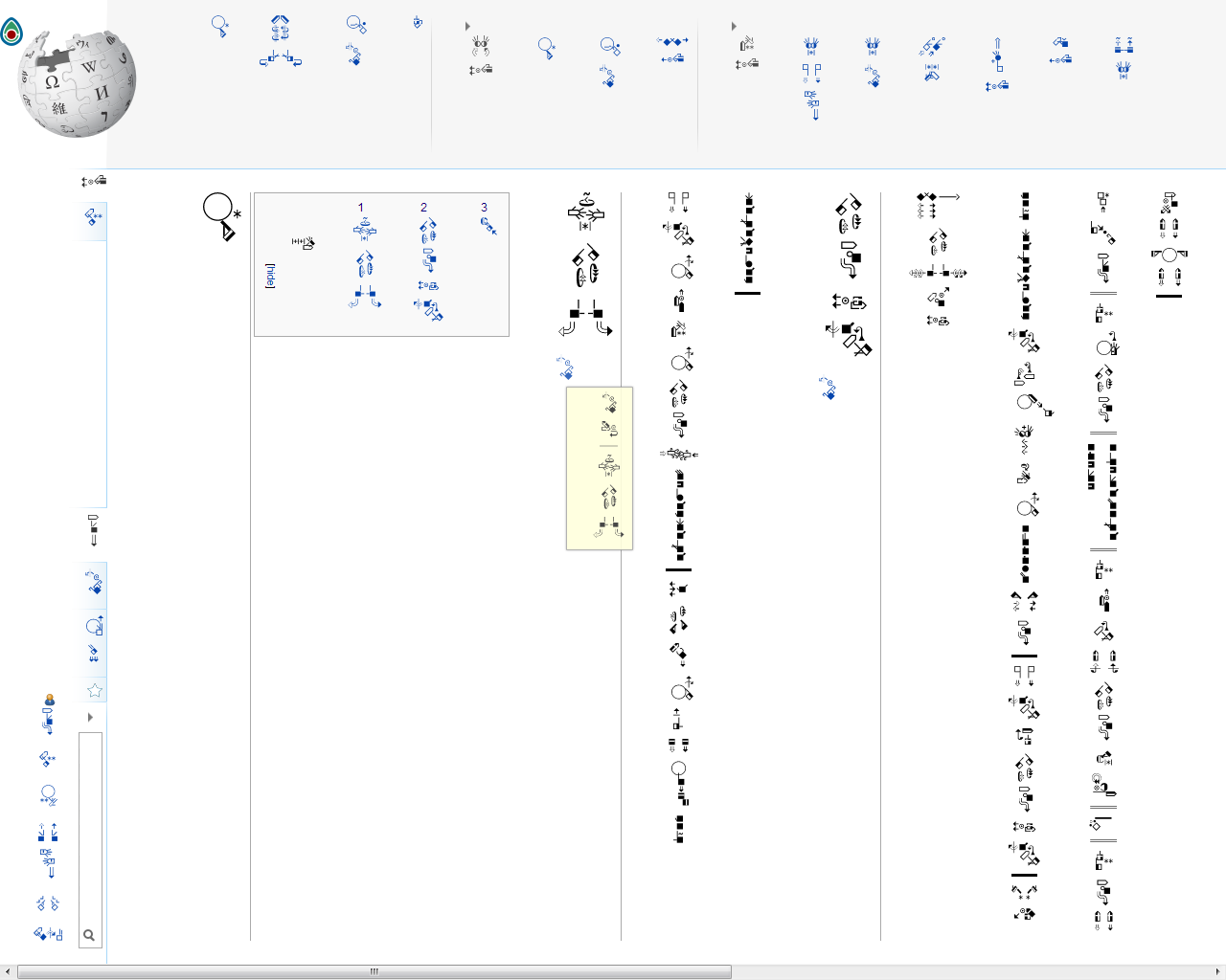 Screenshot of incubator:Wp/ase/M529x544S2ff00482x483S20500519x504S18517503x517, with a number of additional styles and modifications.